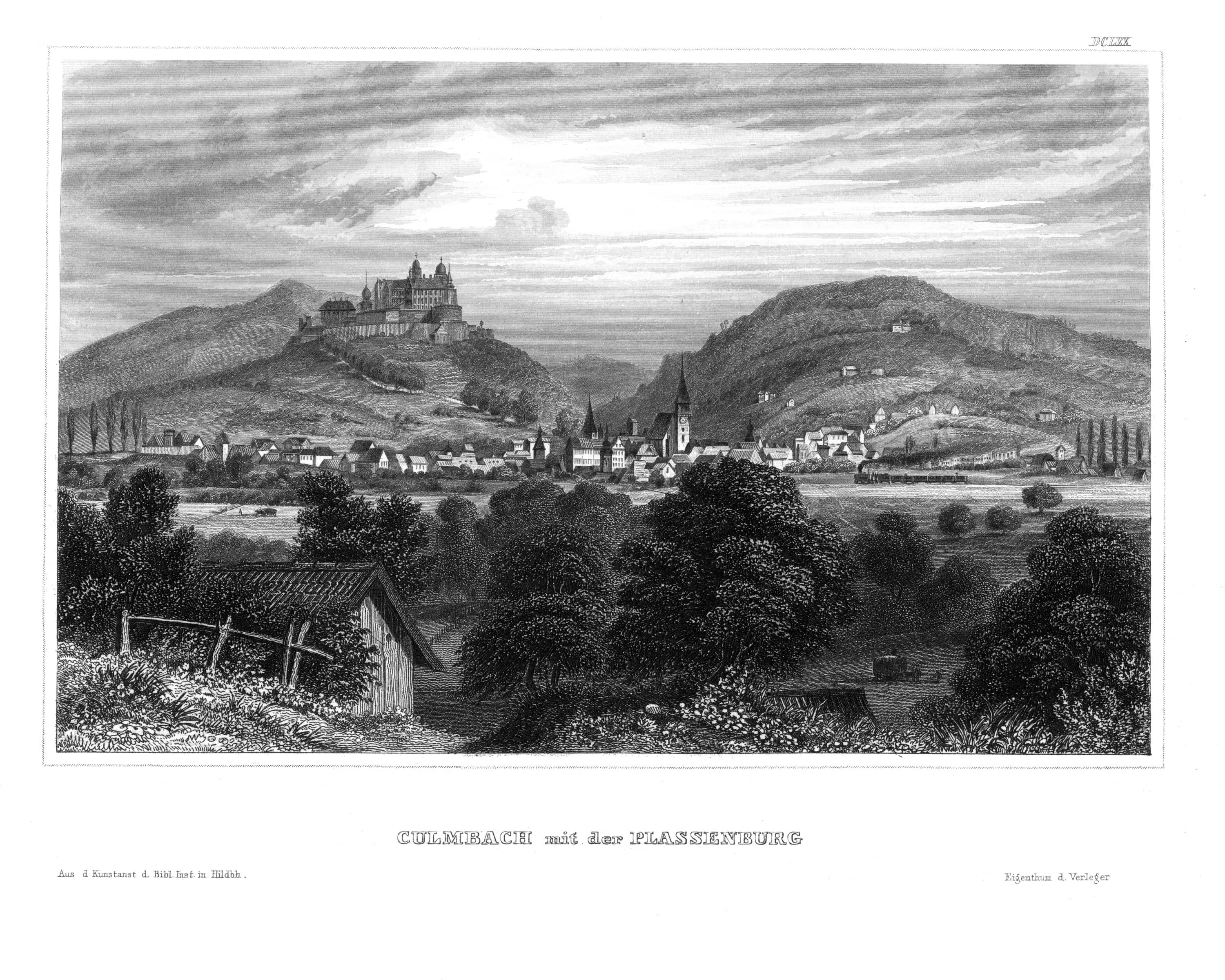 Kulmbach